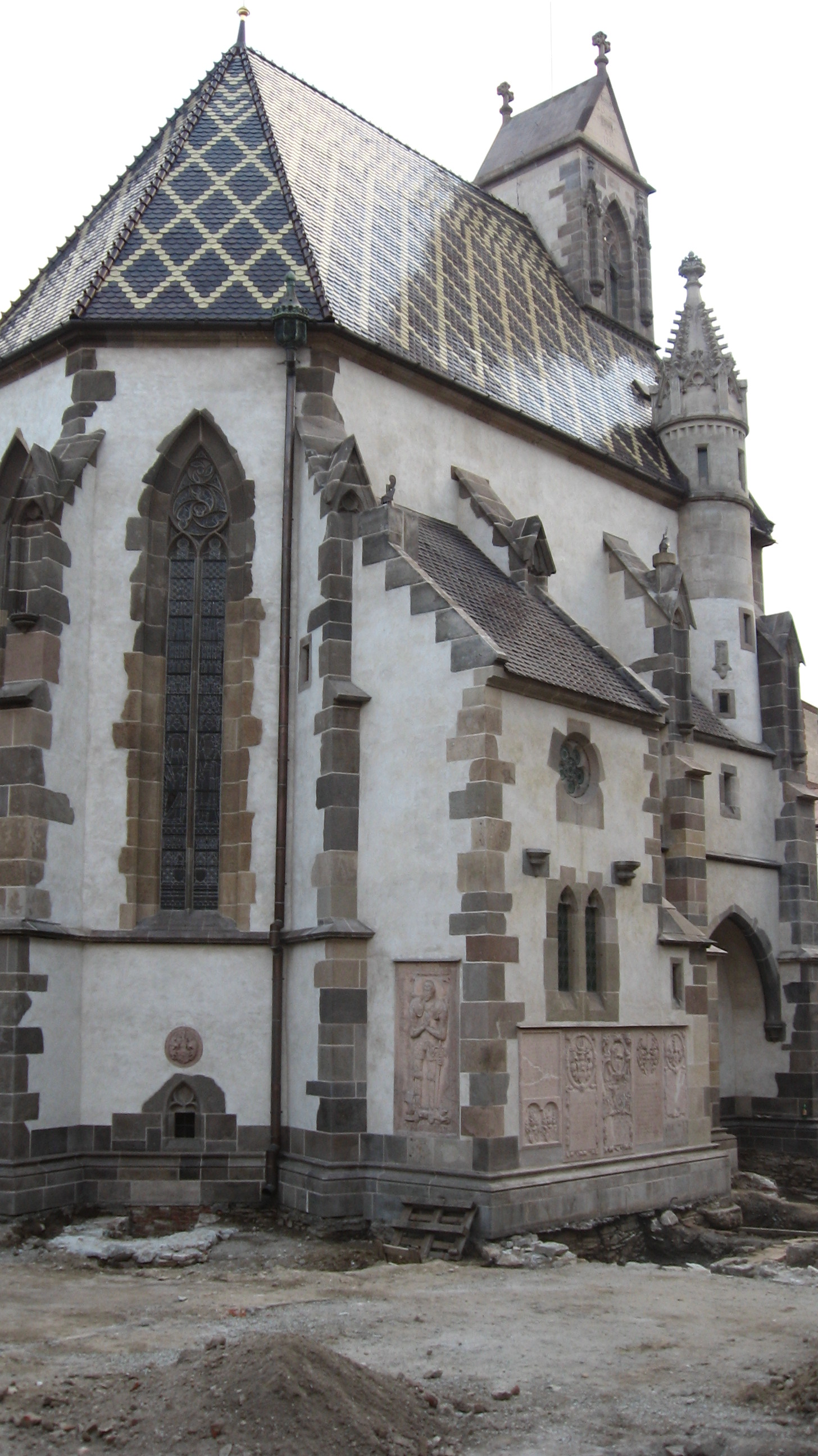 This medium shows the protected monument with the number 802-1117/2 in the Slovak Republic.